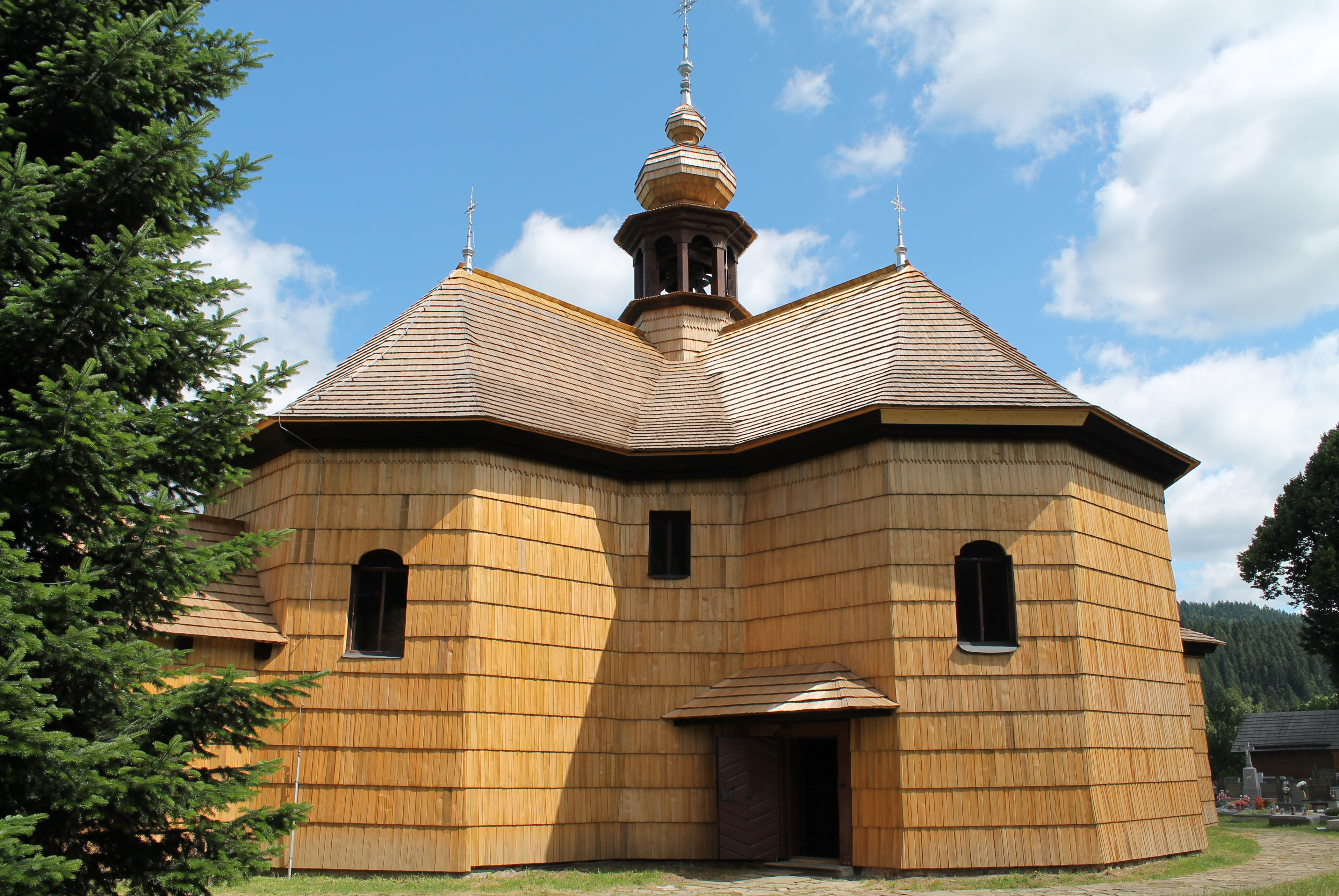 Church of Our Lady of the Snow, Velké Karlovice, Vsetín District, Czech Republic